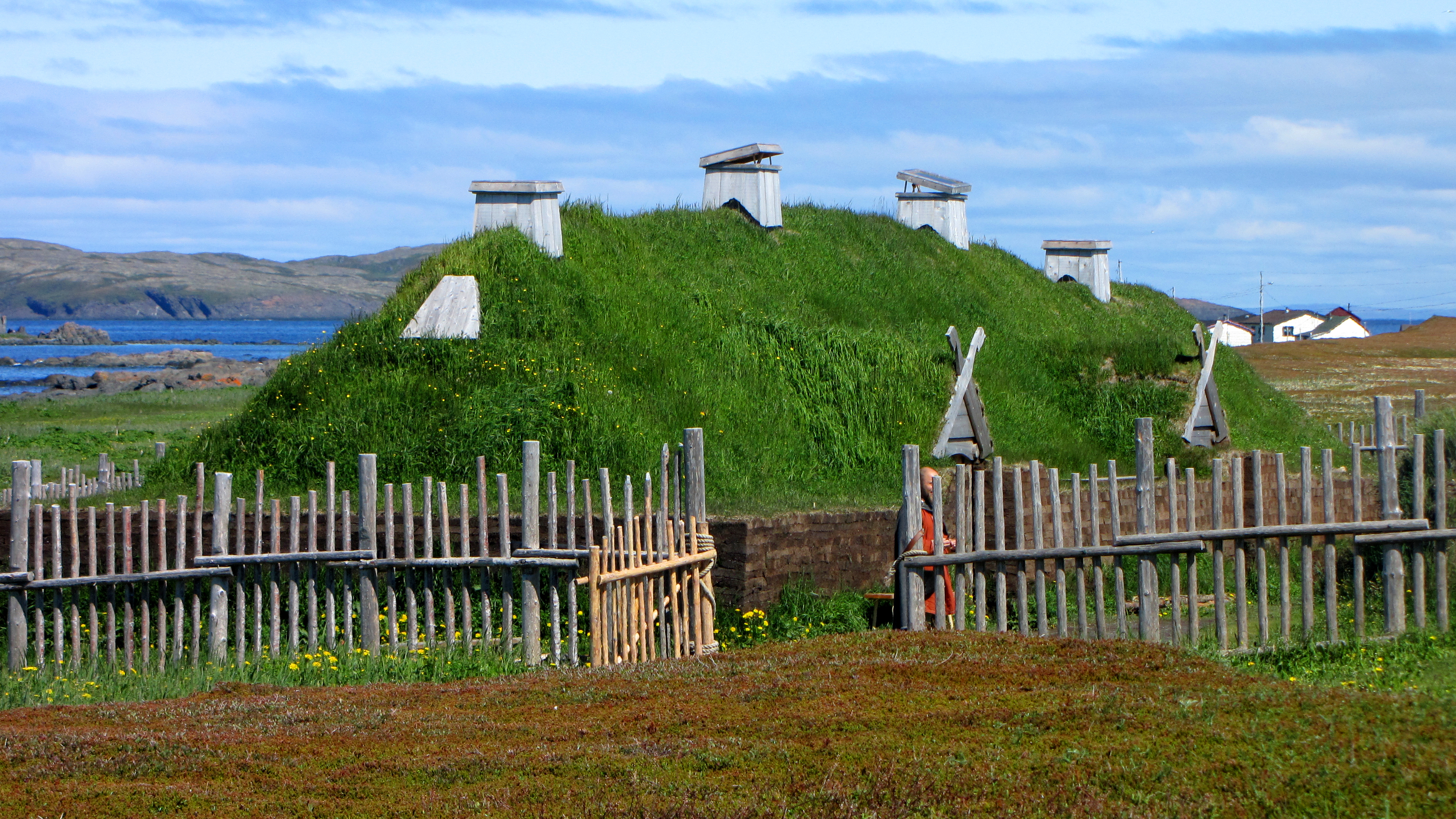 Norse long house recreation, L'Anse aux Meadows, Newfoundland and Labrador, Canada